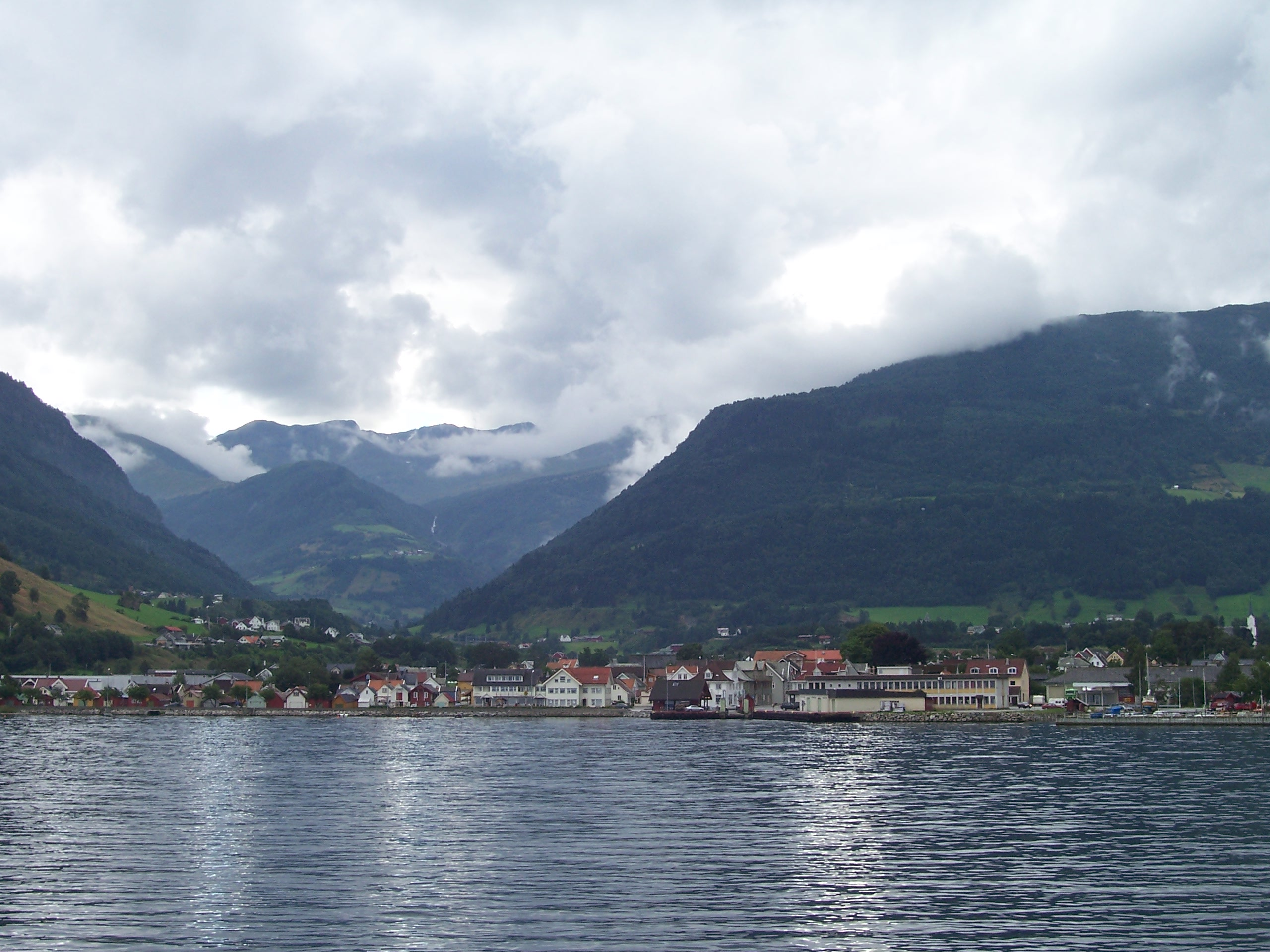 This is Vik, home of a stave church, and about fifteen minutes from where we were going to stay. Despite the closeness, it seems to be almost impossible to get to as a pedestrian, although presumably there's a way. We'd (briefly) visit Vik on our way to another fjord a few days later. Taken on day 2 of our fjord based holiday in Norway.